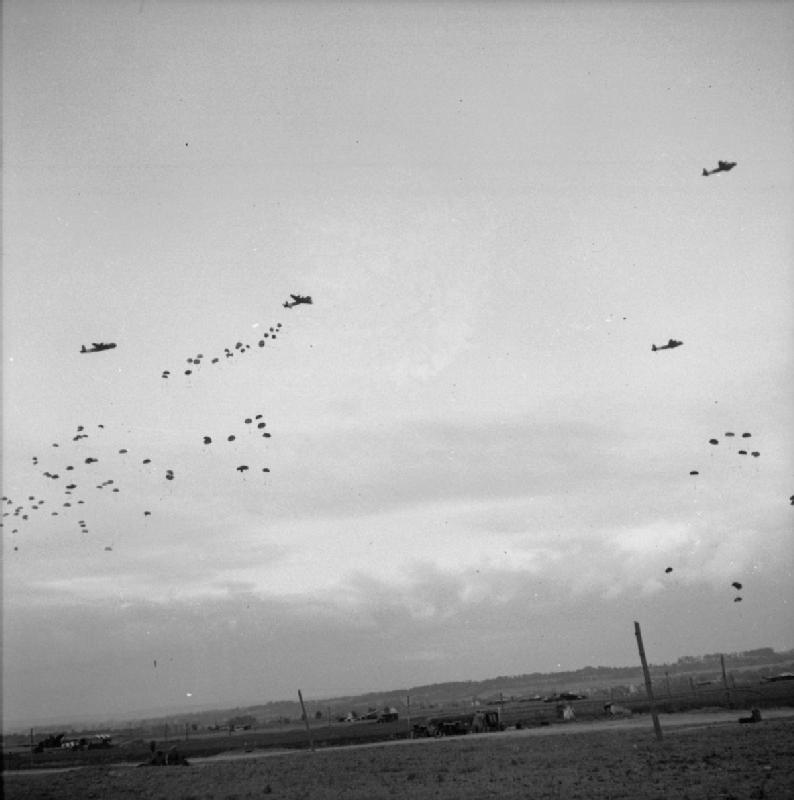 The British Army in Normandy 1944 Stirling bombers dropping supplies by parachute to men of 6th Airborne Division at St Aubin D'Arquenay, 23 June 1944.